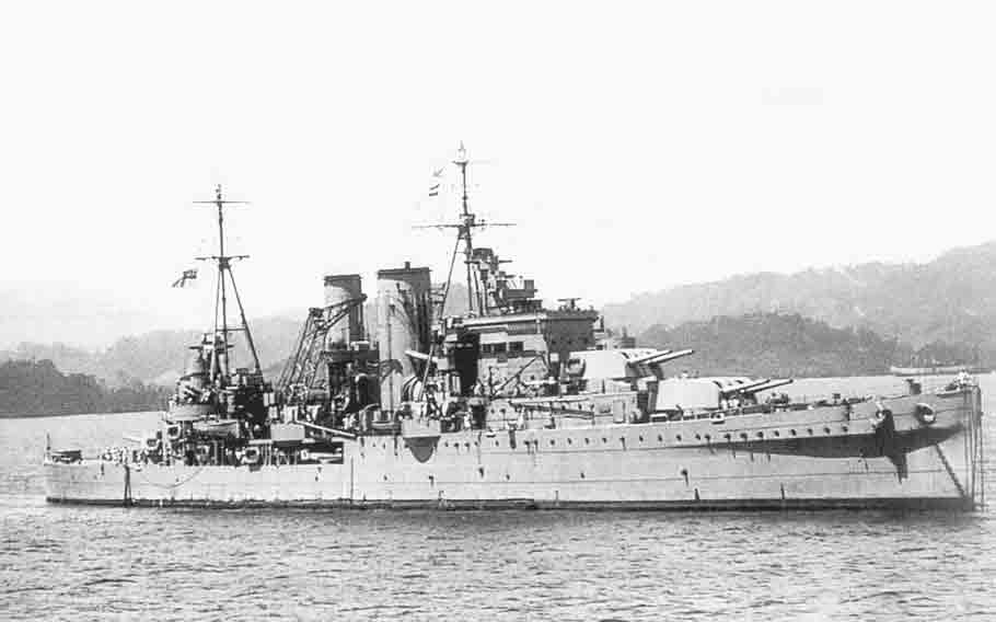 British heavy cruiser HMS Exeter off the coast of Sumatra (Netherlands East Indies) in 1942